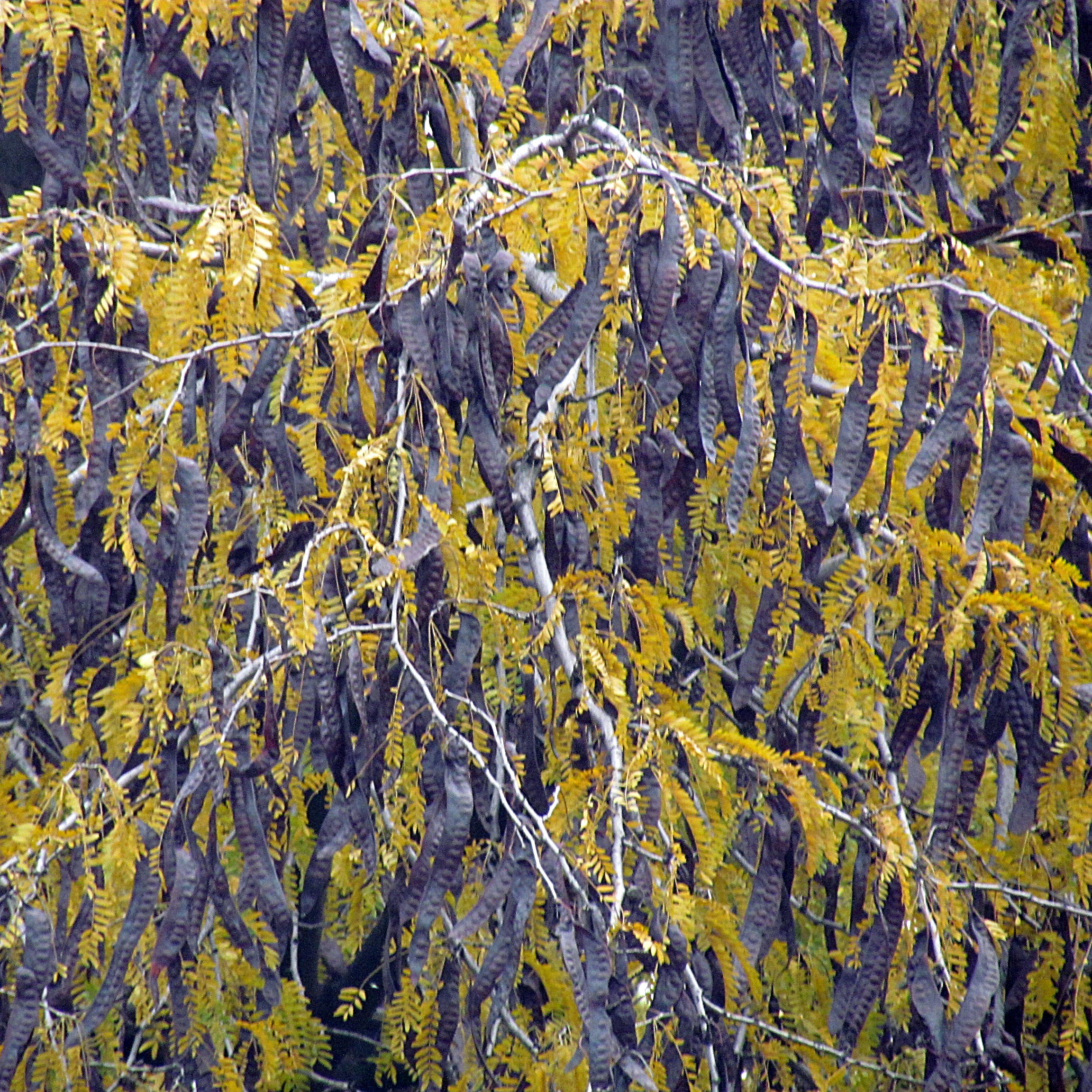 Gleditsia triacanthos pods